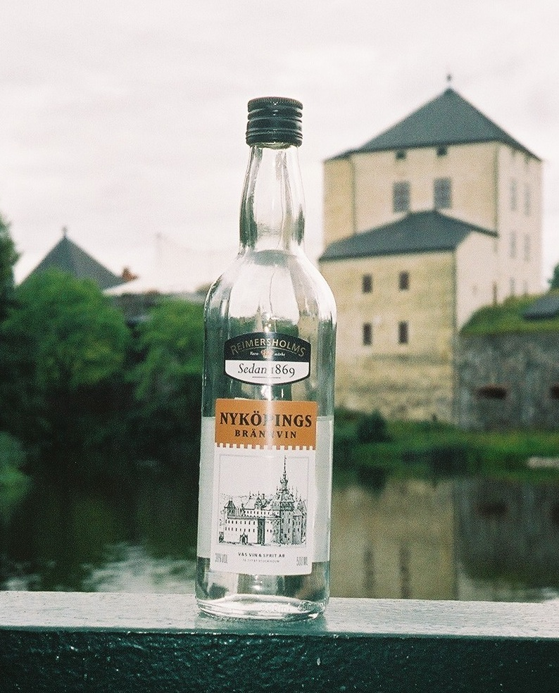 A bottle of Nyköpings Brännvin seen with the medieval castle Nyköpingshus in the background.